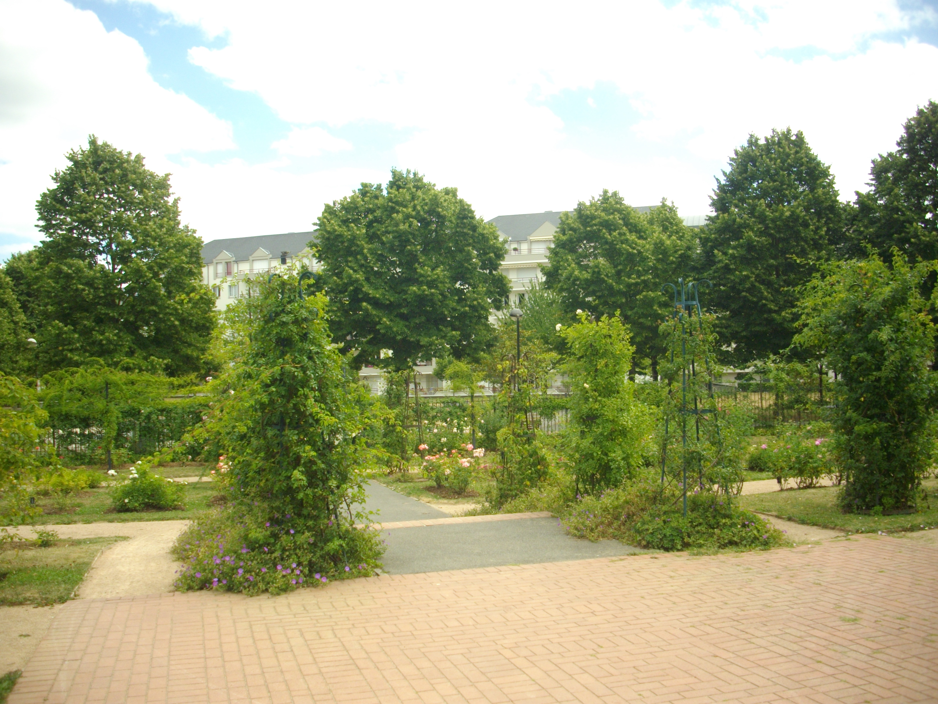 Léon Chenault park, in Orléans (Loiret, France)